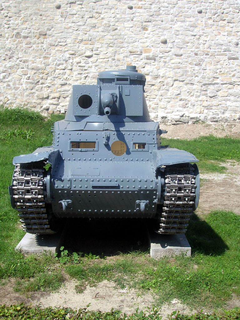 Panzer 35, Belgrade Military Museum, Serbia. Author of the picture is user Marko M.